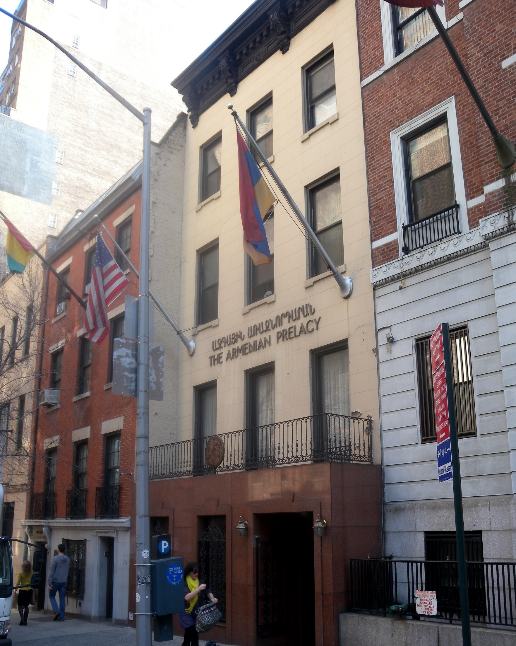 Looking south across East 39th St at Armenian Apostolic Prelacy on a cloudy afternoon.